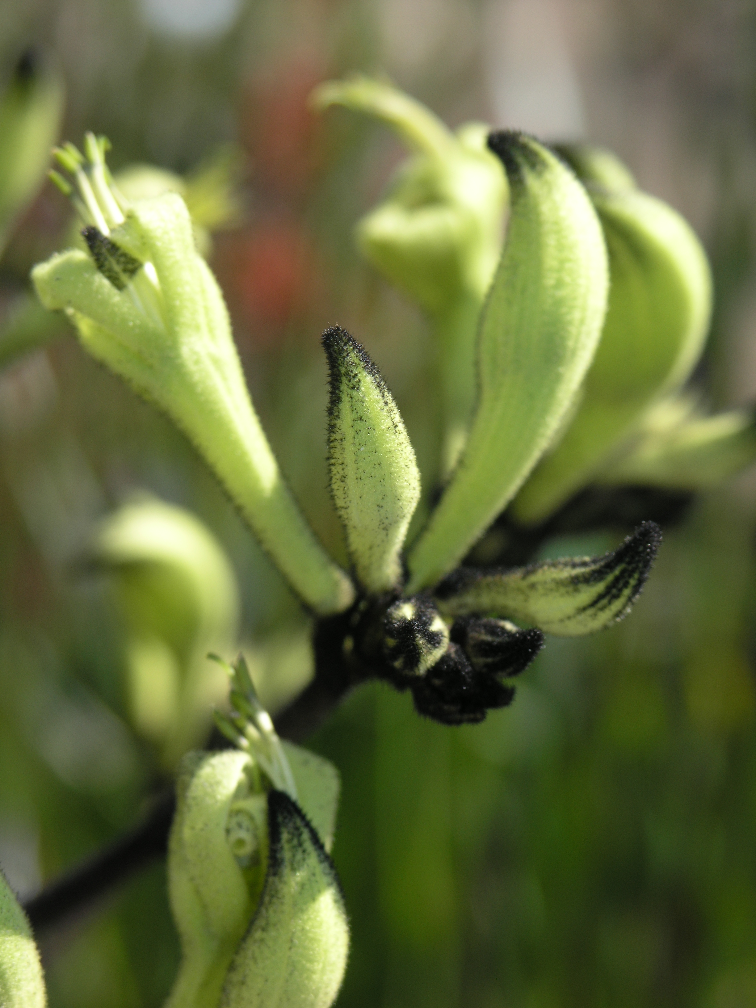 Photograph of Macropidia fulginosa (Black Kangaroo Paw)